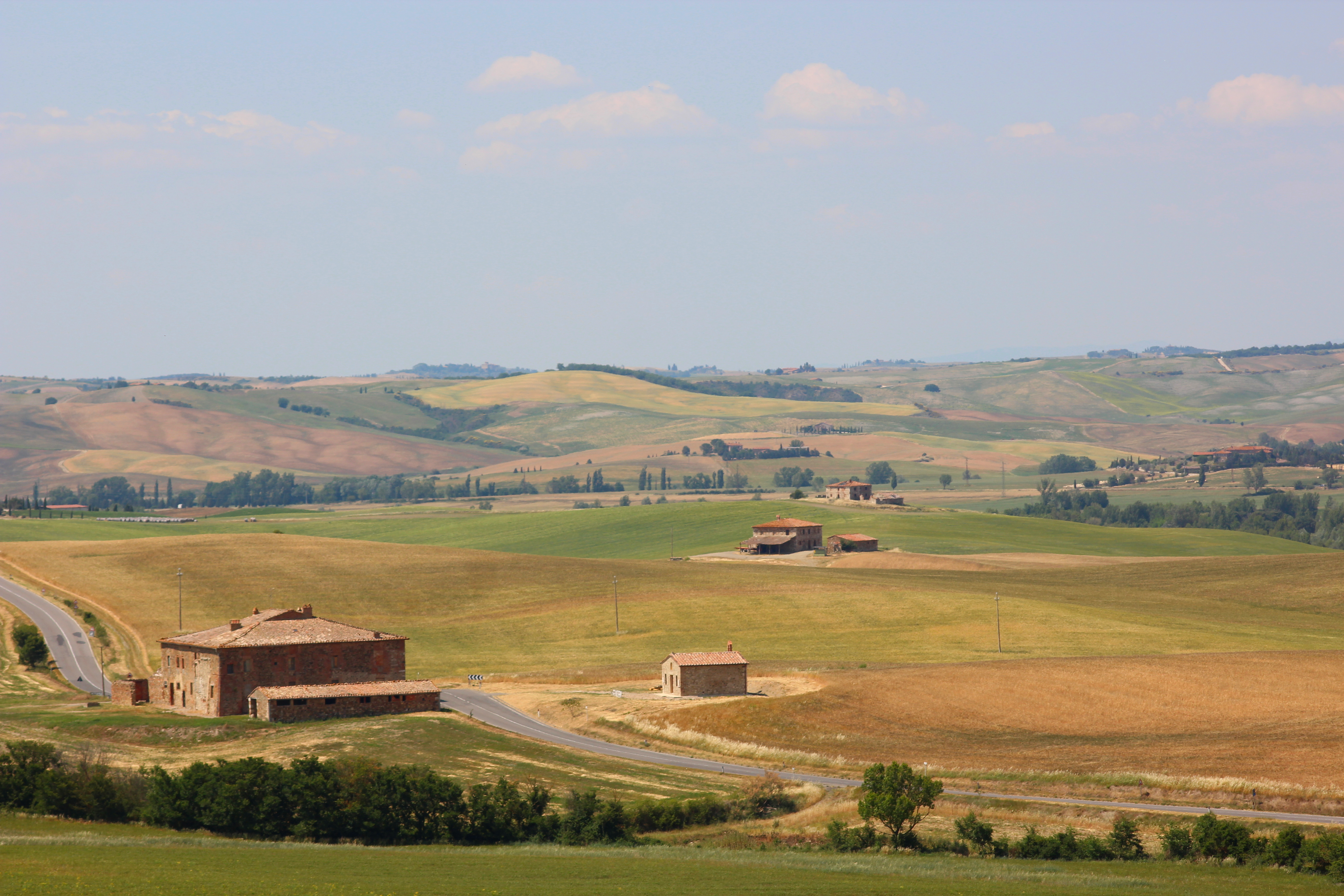 Church de La Scala (also Chiesa della Scala, Chiesa della Fattoria La Scala, Gallina, hamlet of Castiglione d'Orcia, Province of Siena, Tuscany, Italy